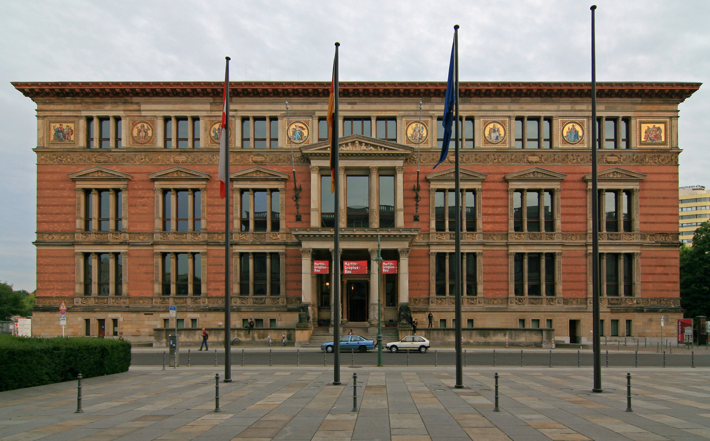 Martin-Gropius-Bau, Berlin.